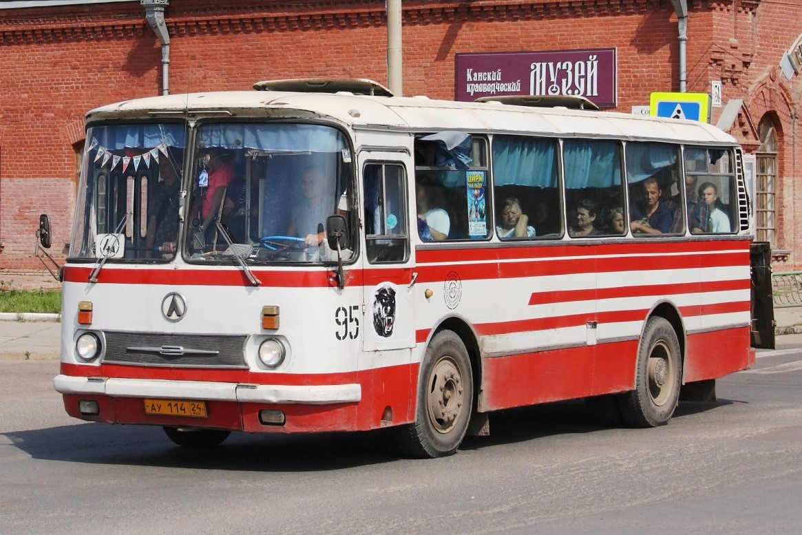 LAZ-695N in Kansk, Krasnoyarsk krai, Russia